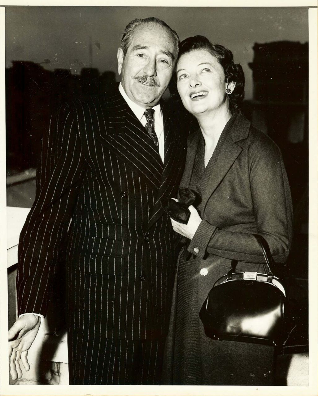 Promotion photo: Adolphe Menjou and Myrna Loy in The Ambassador's Daughter Comment: From the Douglas Whitney collection as handwritten on reverse Cast: Adolphe Menjou, Myrna Loy Setting: The Ambassador's Daughter Date: 1956 Size: 8x10" Weight: Single Condition: See Scans for condition of photo. If further info on condition is needed, please contact me. Original: vintage - yellowed, appears to be, however not dated Finish: Glossy